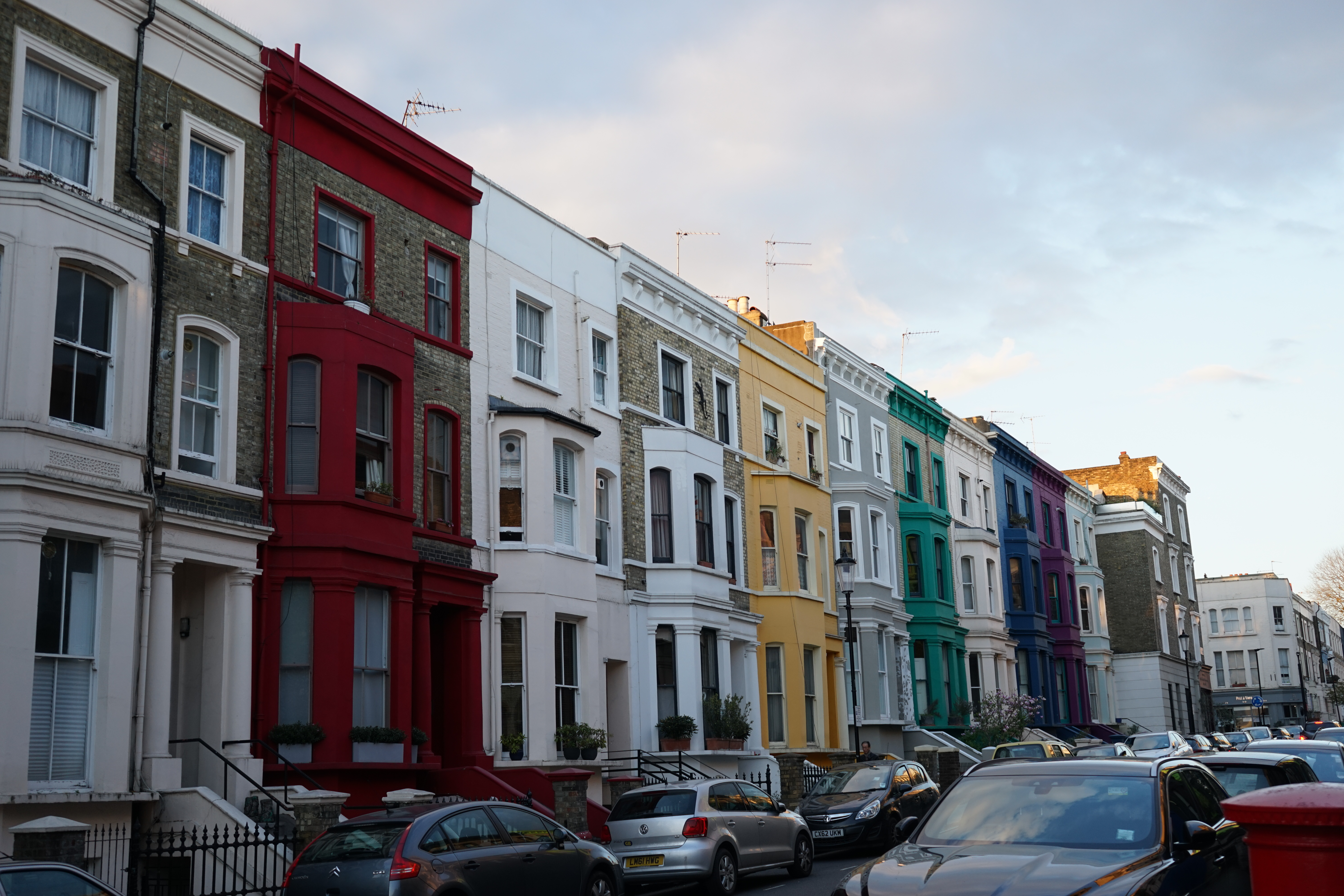 Colorful houses on Lancaster road in Notting Hill.